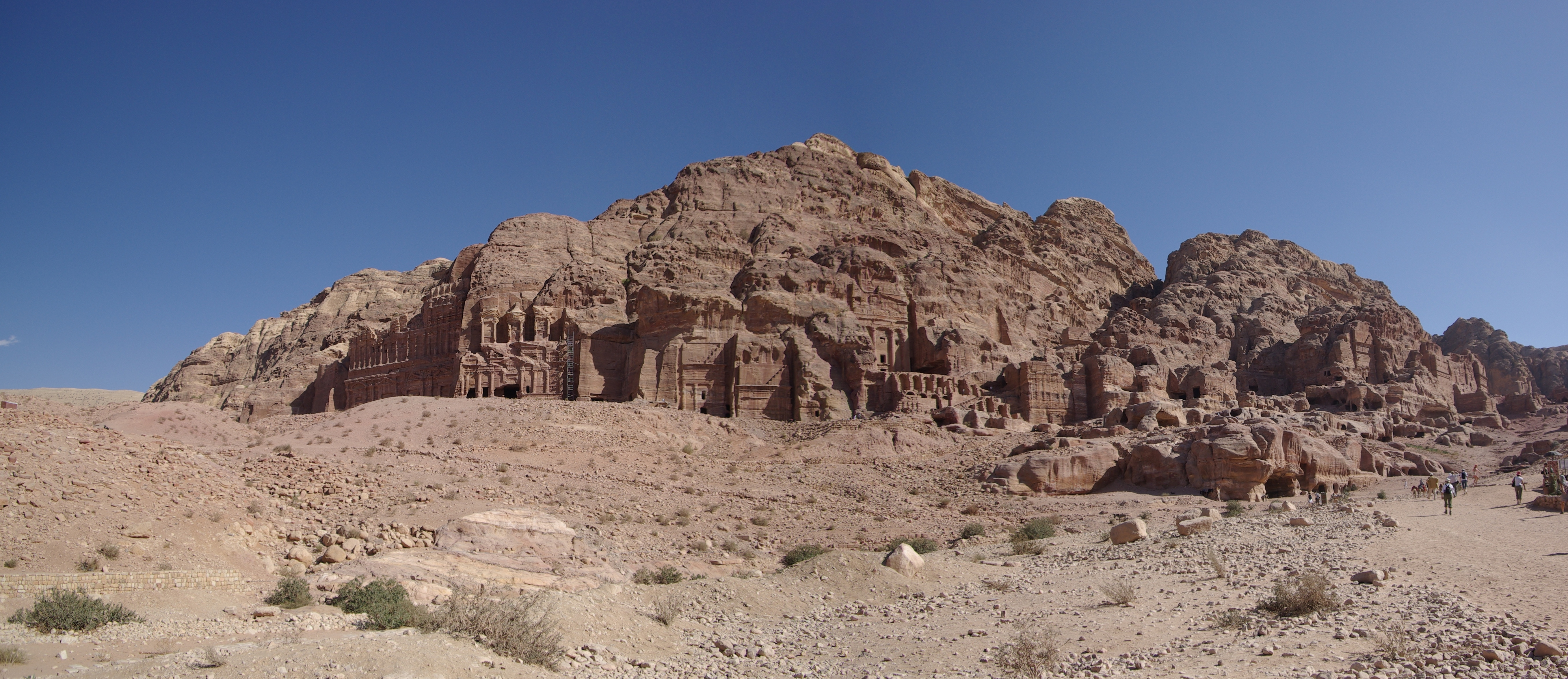 Petra, Jordan. "The Tombs of Kings".